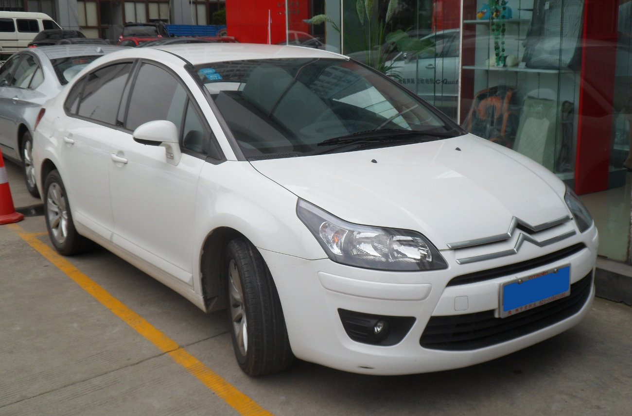 Citroën C-Quatre sedan photographed in Shanghai, China.